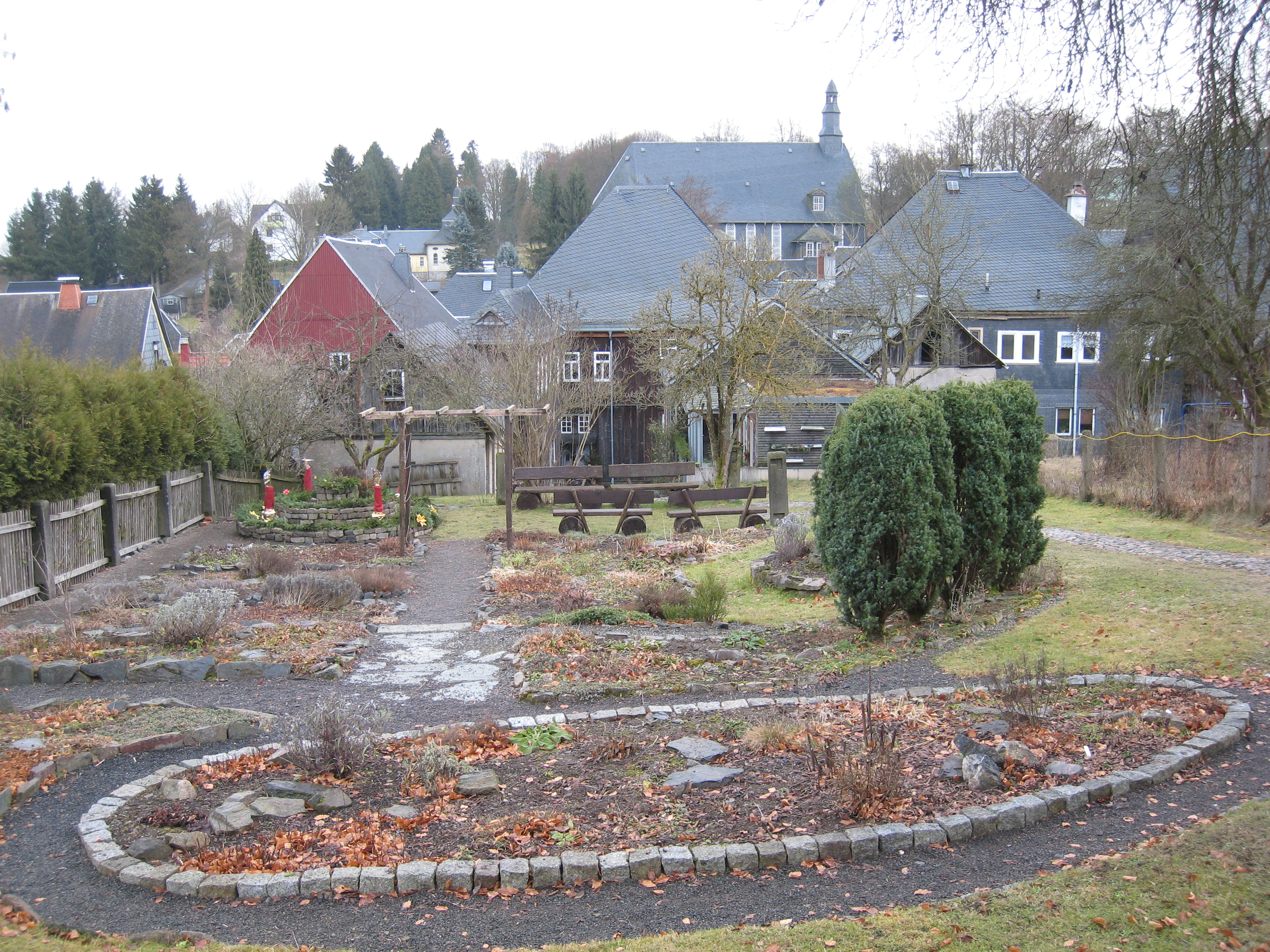 Garten des Kreativ-Museums Großbreitenbach